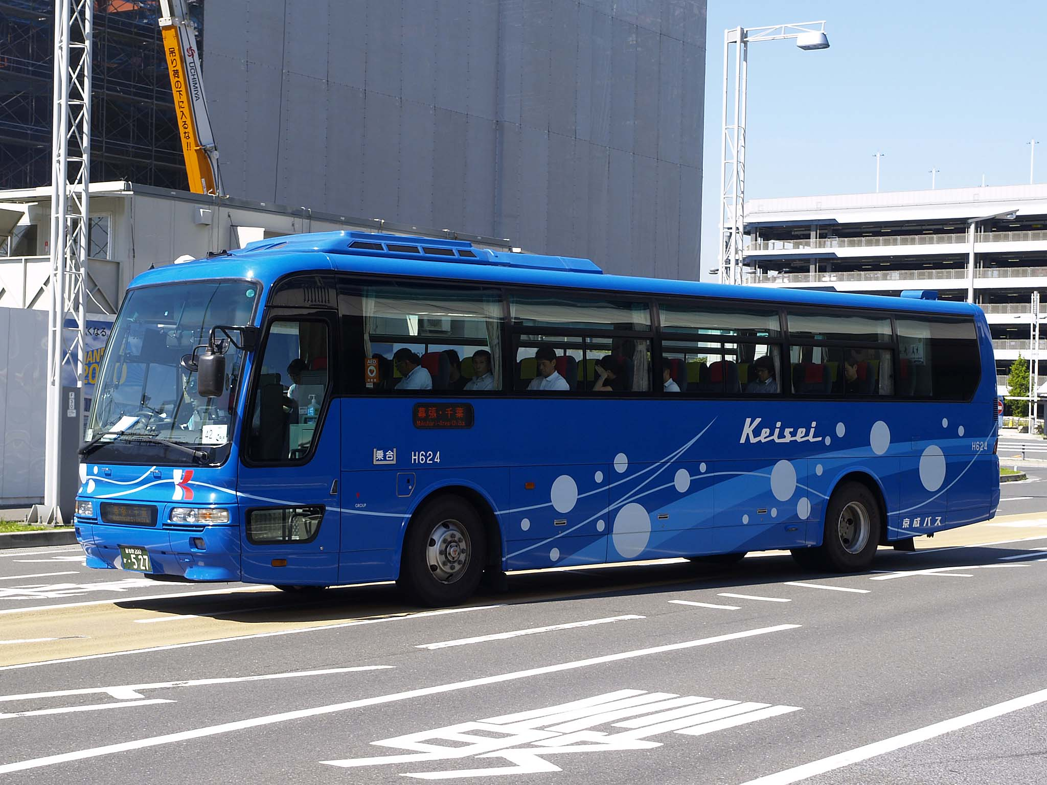 Fleet of Keisei Bus, for airport limousine and Tokyo Disney Resort line. Model: Mitsubishi Fuso Aero Bus KL-MS86MP License plate: CBN200KA-527 Place: Tokyo International airport